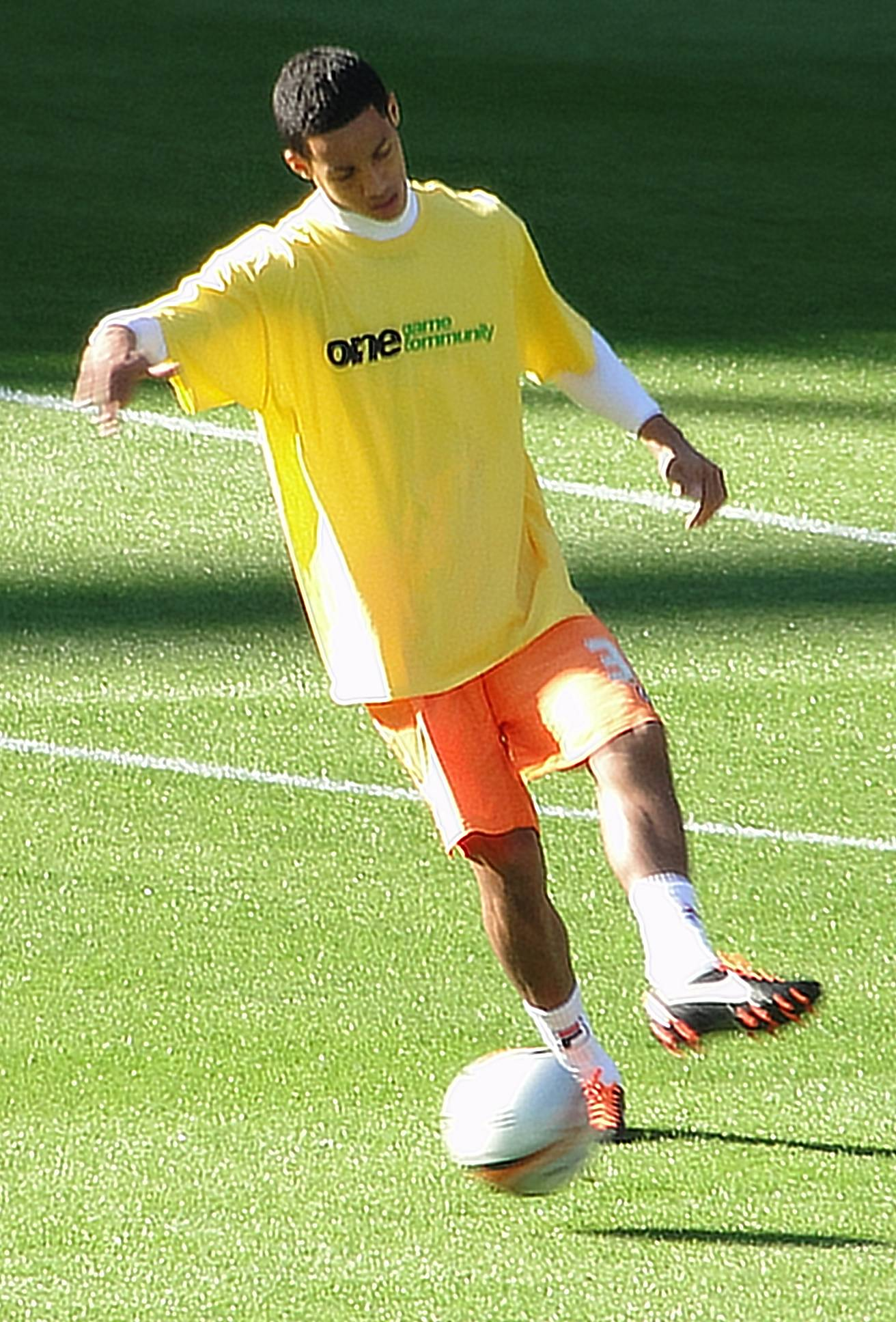 Blackpool player Tom Ince warming-up before their 4-0 defeat to West Ham on 15 October 2011 at The Boleyn Ground